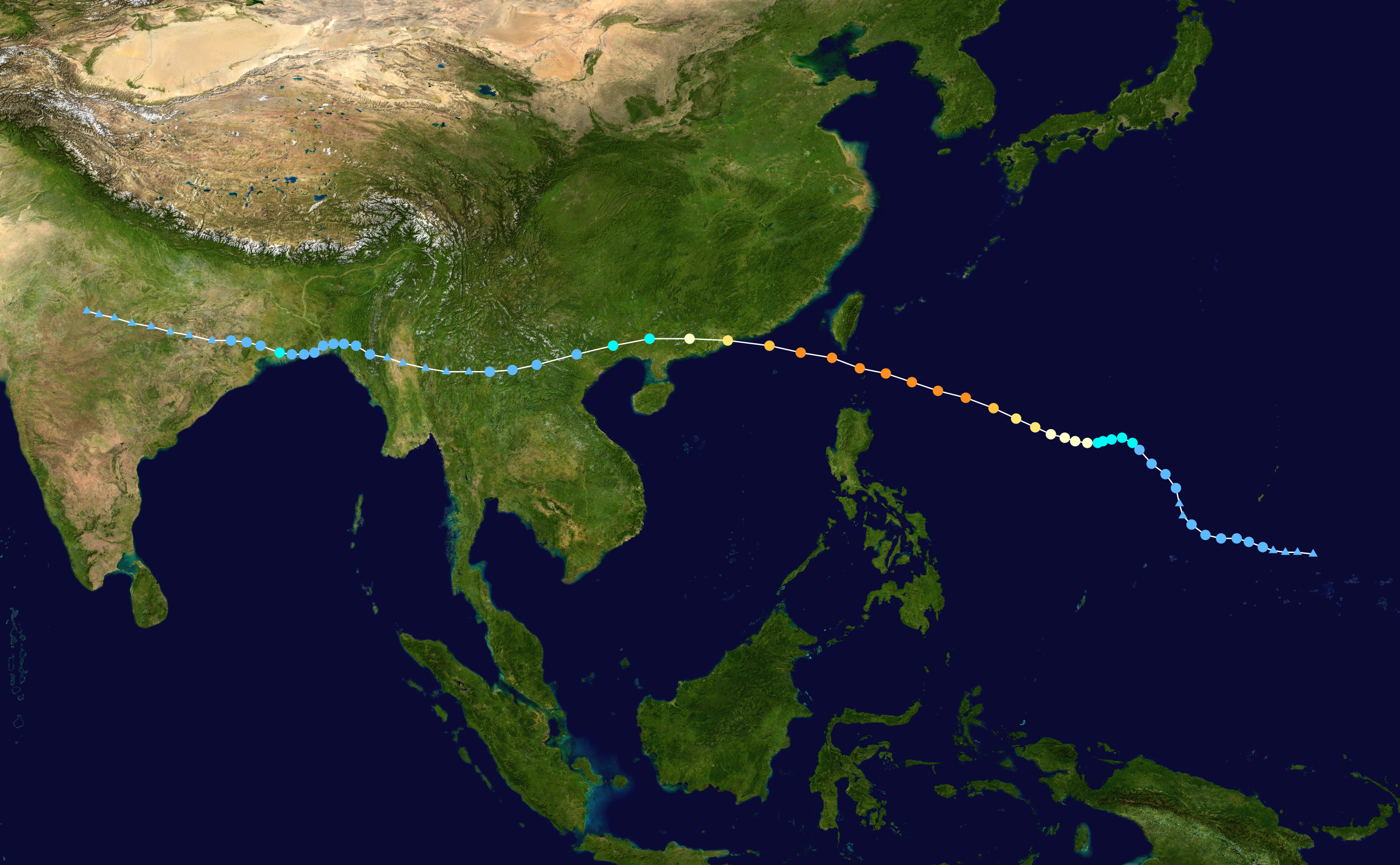 Track map of Typhoon Hope of the 1979 Pacific typhoon season. The points show the location of the storm at 6-hour intervals. The colour represents the storm's maximum sustained wind speeds as classified in the Saffir–Simpson scale (see below), and the shape of the data points represent the nature of the storm, according to the legend below. Saffir–Simpson scale Tropical depression≤38 mph≤62 km/h Category 3111–129 mph178–208 km/h Tropical storm39–73 mph63–118 km/h Category 4130–156 mph209–251 km/h Category 174–95 mph119–153 km/h Category 5≥157 mph≥252 km/h Category 296–110 mph154–177 km/h Unknown Storm type Tropical cyclone Subtropical cyclone Extratropical cyclone / Remnant low / Tropical disturbance